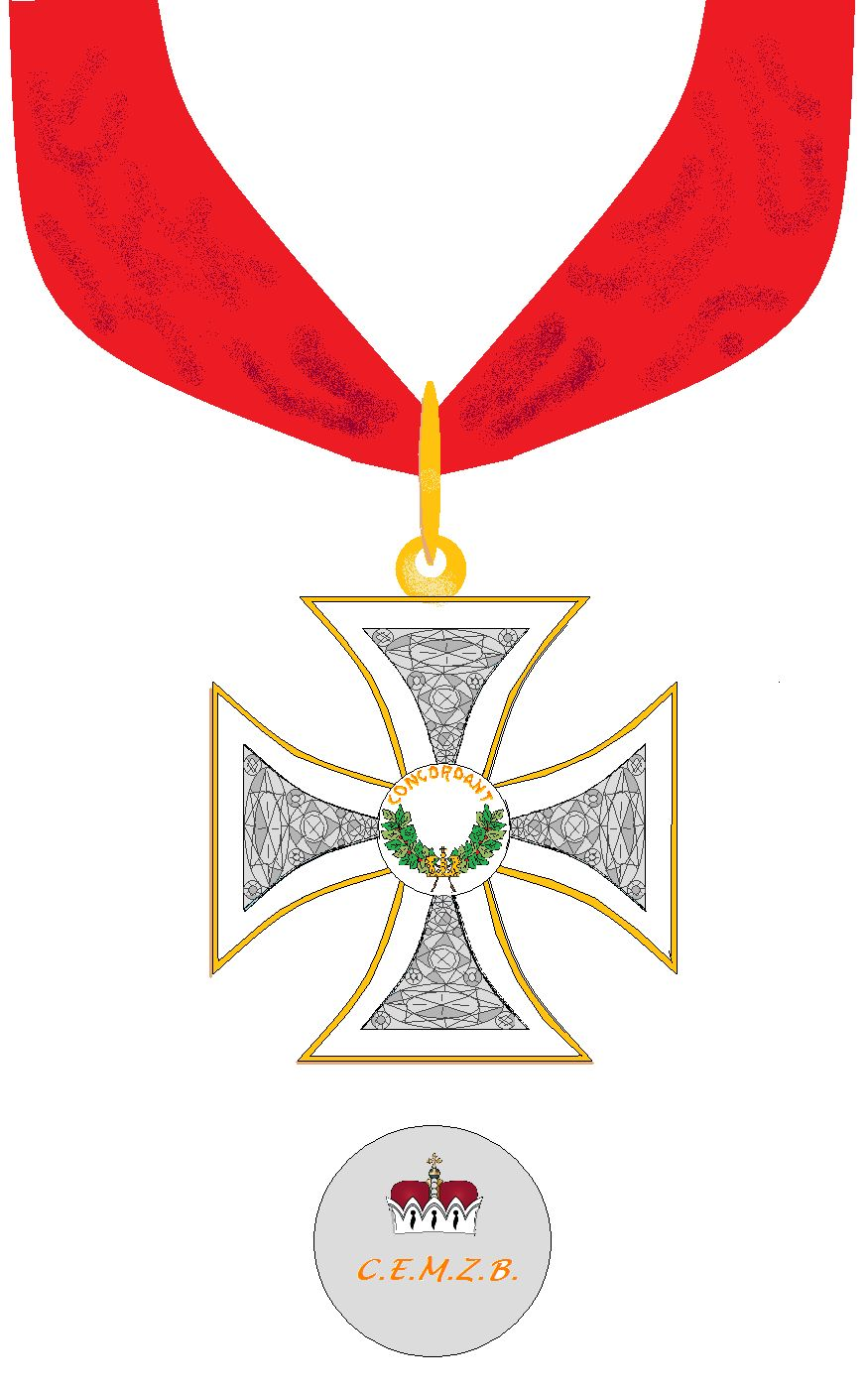 The jewelled cross of the "Ordre de la Concorde", Bayreuth 1660